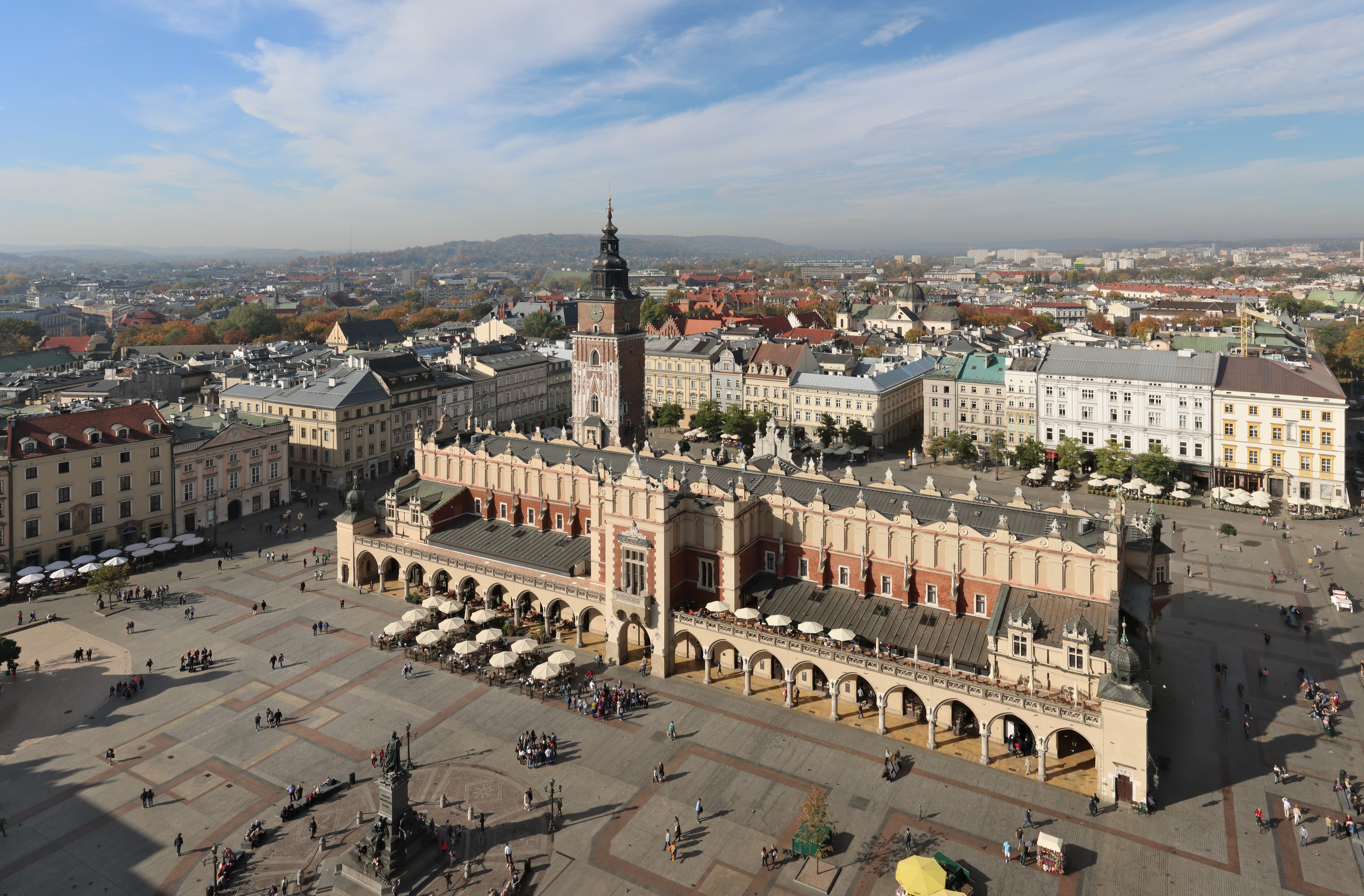 Krakow / Rynek: Cloth Hall and Town Hall Tower from tower of St. Mary Basilica